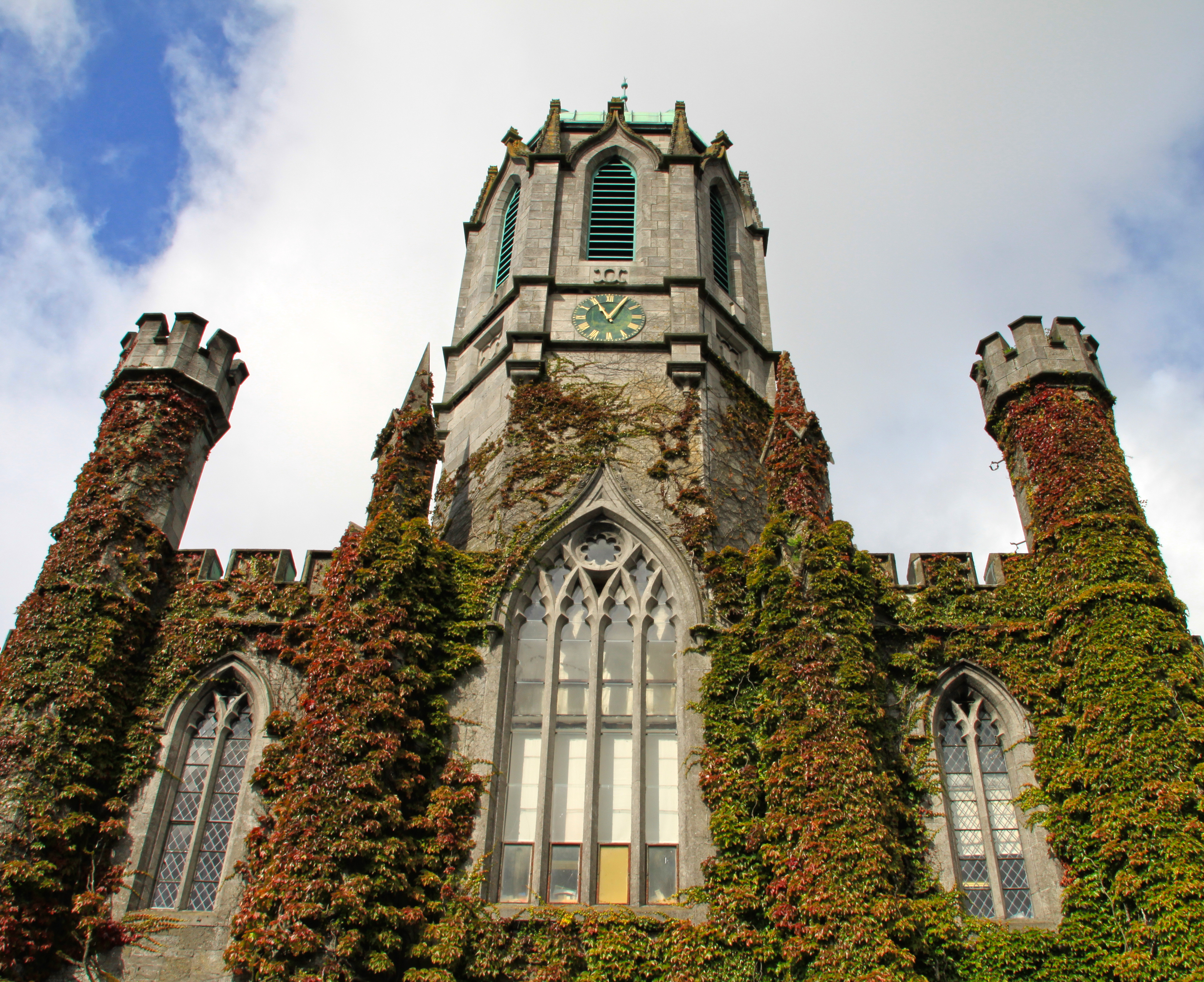 Ivy growing on the national university of Galway building, Ireland .